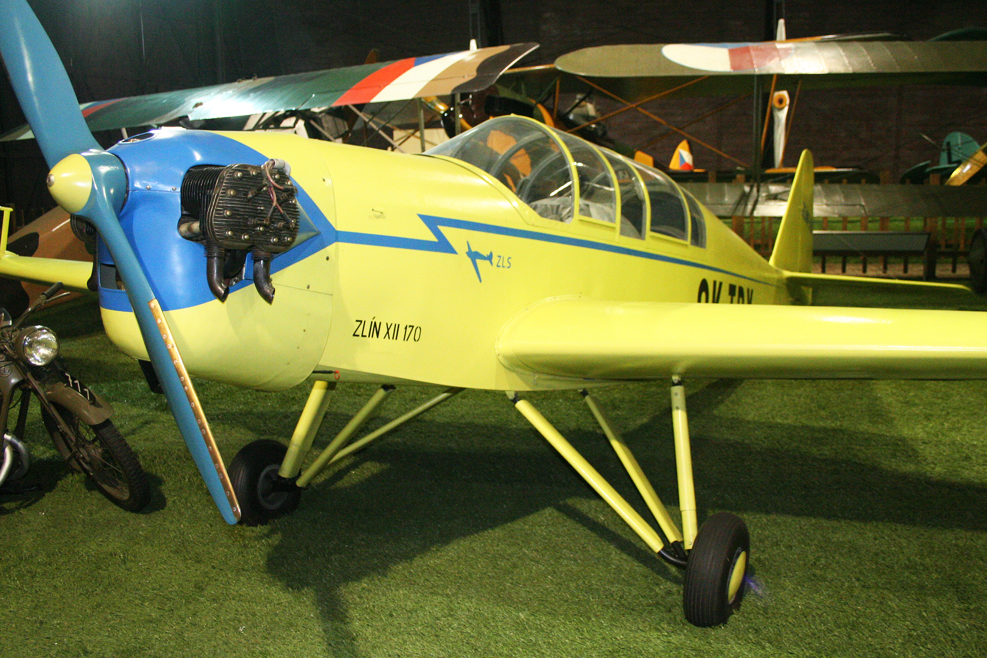 Partial replica. c/n 170. On display in the 1925-1938 hangar. Kbely Museum, Czech Republic. 07-10-2012